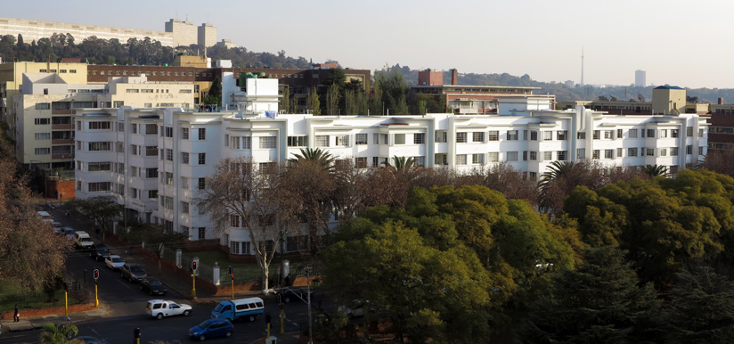 One of Killarney's landmarks, Daventry Court was built in 1934-5.